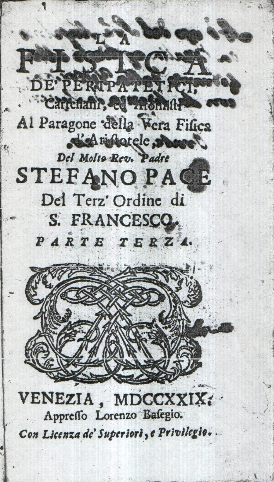 "La Fisica" (1729) of Stephen Pace